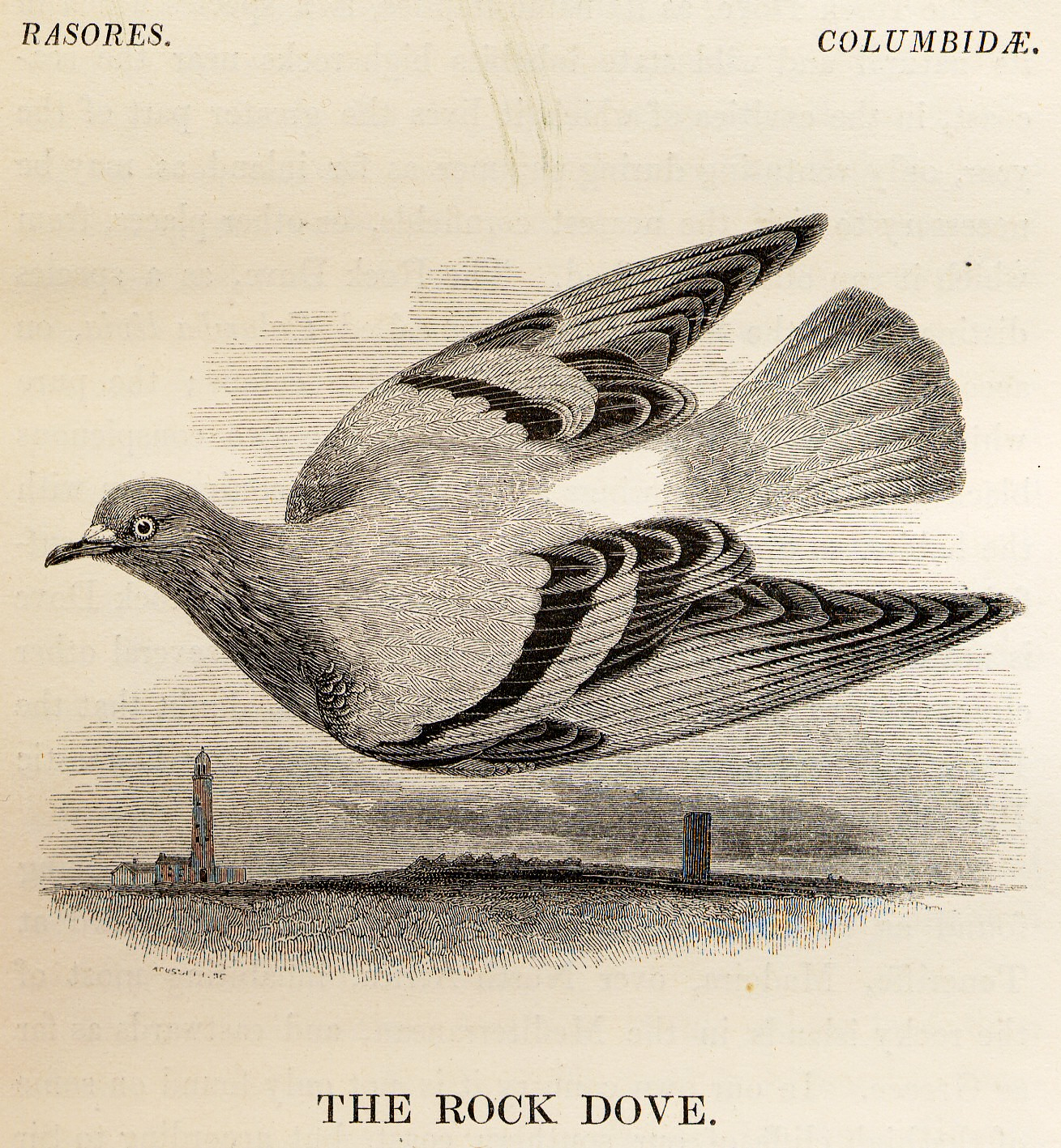 Rock Dove from Yarrell History of British Birds 1843, drawn by Alexander Fussell and engraved by John Thompson. This image is unusual in depicting a bird as if in flight.